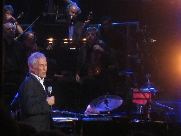 Burt Bacharach in concert, 2008.